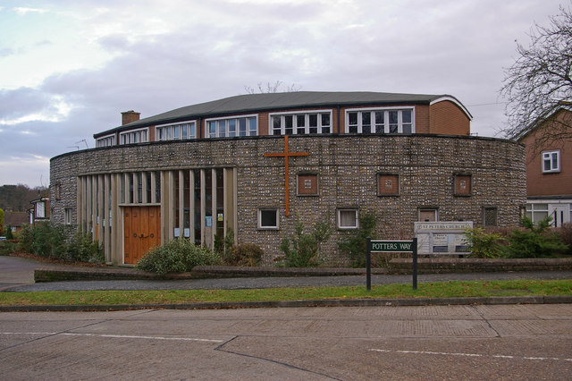 St Peter's parish church, Potters Way, Woodhatch, Surrey, seen from the west in 2008. By 2013 it had been deconsecrated and converted into a nursery school.